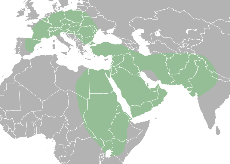 The distribution of Prodeinotherium, based on distribution in Koufos et al. 2002. Base map is File:BlankMap-World Default Edition.svg, with corrections to the Caspian sea. Koufos et al., 2002 [1]